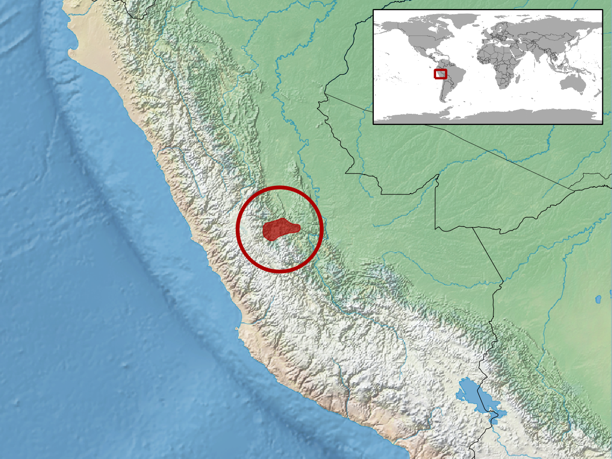 geographic distribution of Amphisbaena polygrammica (Native: Peru)